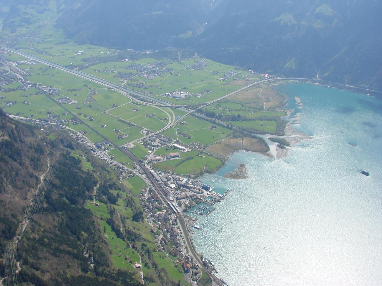 Reuss delta at Flüelen